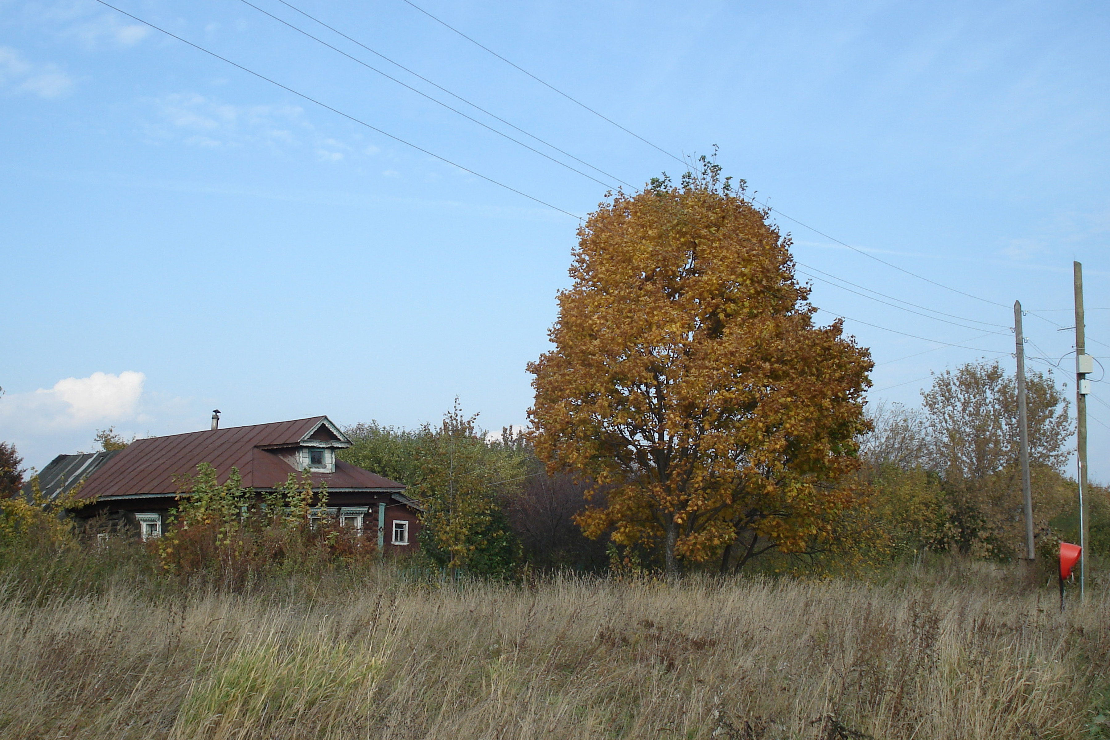 The Village of Kobilkino. Nizhegorodskaya oblast. Russia